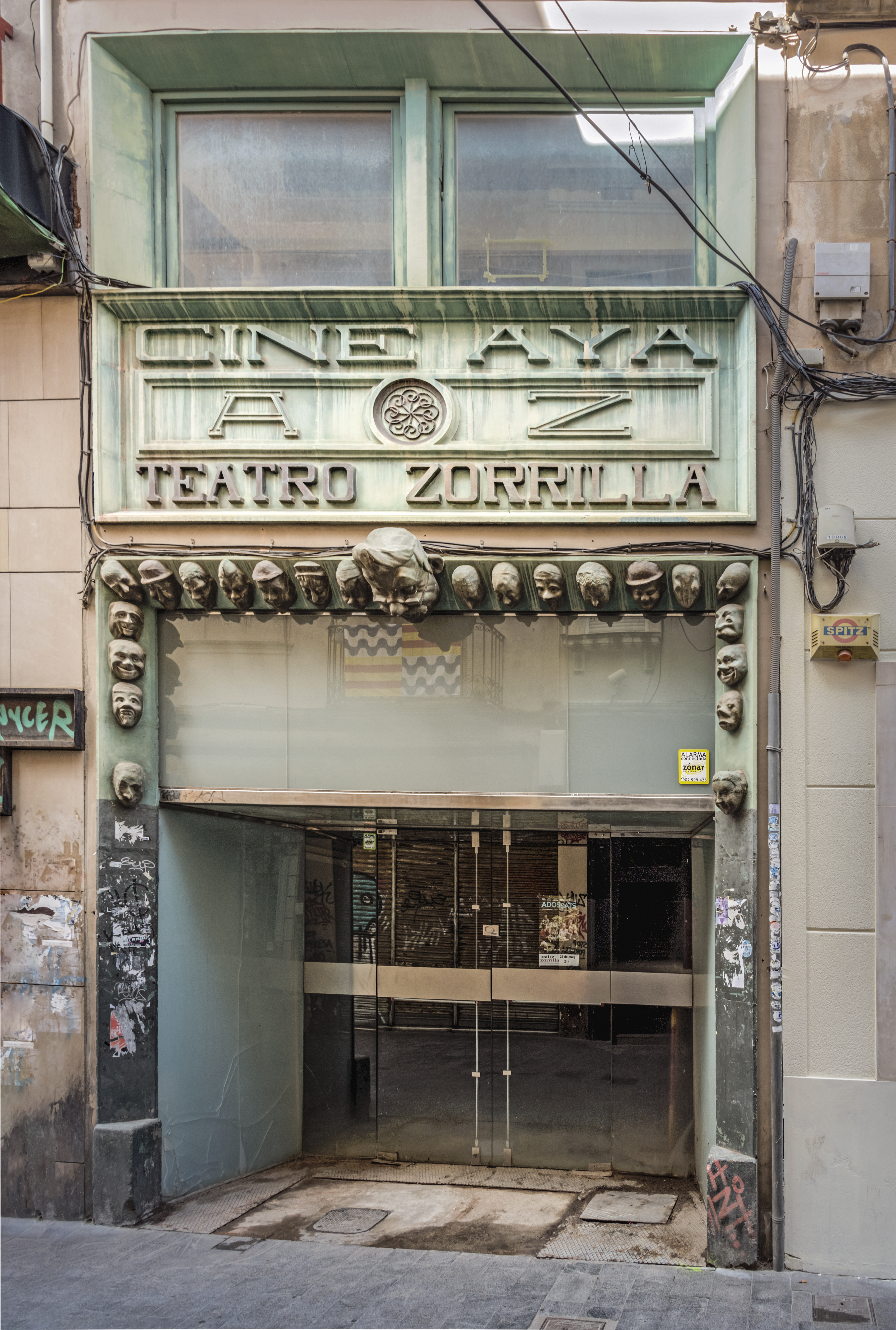 The old entrance of the Teatro Zorrilla, in Carrer del Mar de Badalona.